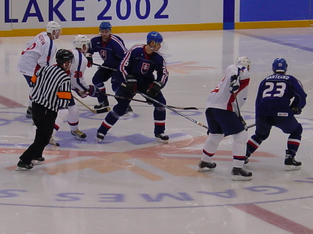 Slovakia vs. France at the 2002 Winter Olympics.